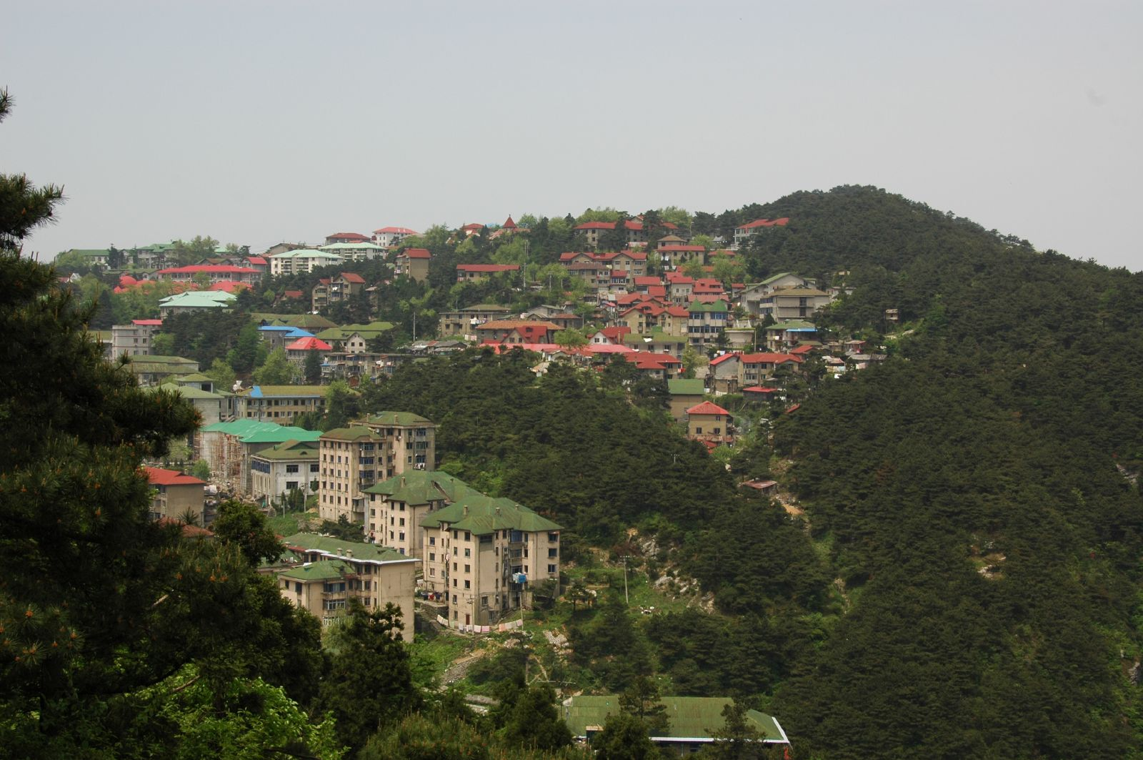 Village at Mount Lu